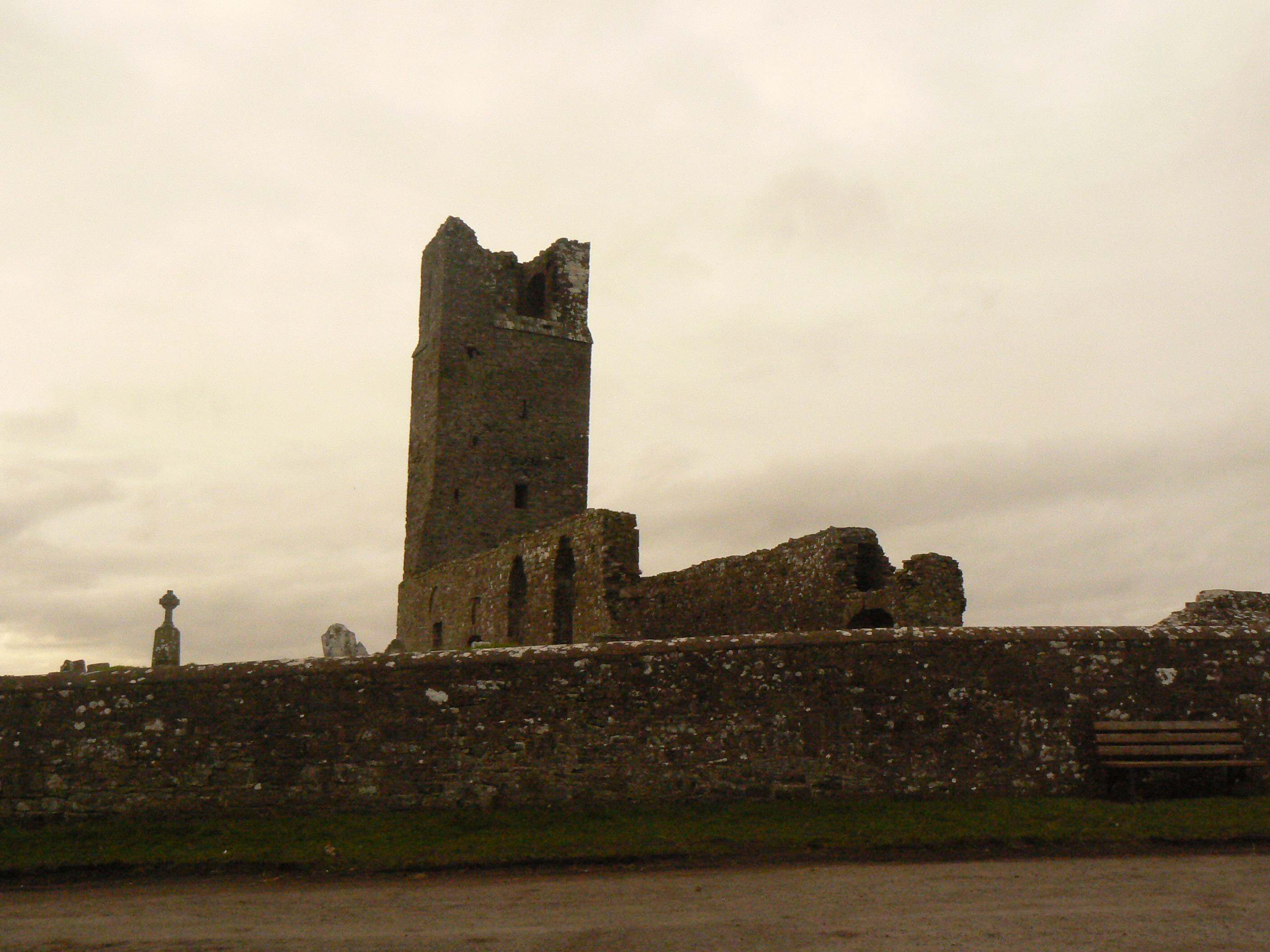 Skryne church 2009